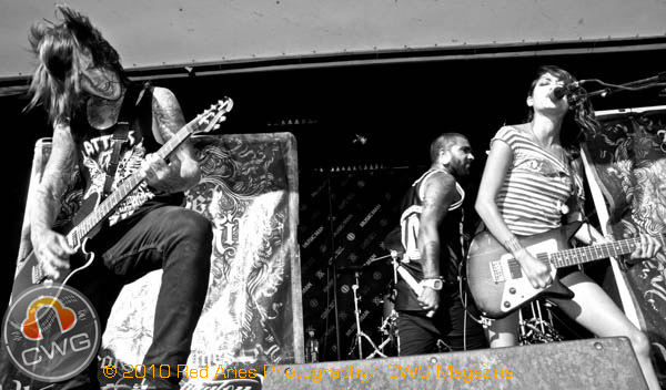 Eyes Set To Kill at Warped Tour 2010.